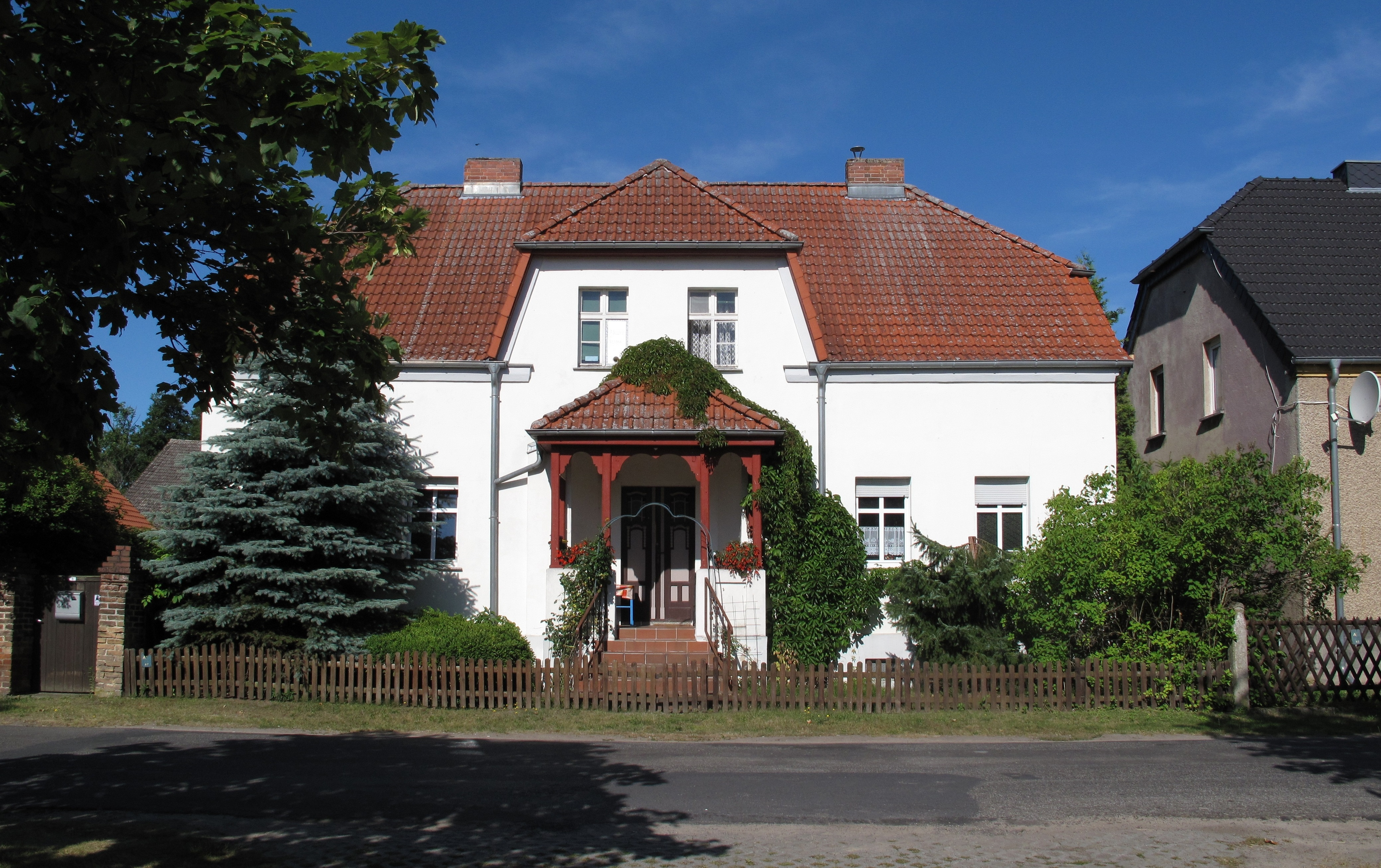 Building in Görsdorf. The village Görsdorf is a part of the town Storkow, District Oder-Spree, Brandenburg, Germany. The village was first mentioned in 1209 and had on January 1, 2013 370 inhabitants. It is situated in the Dahme-Heideseen Nature Park.